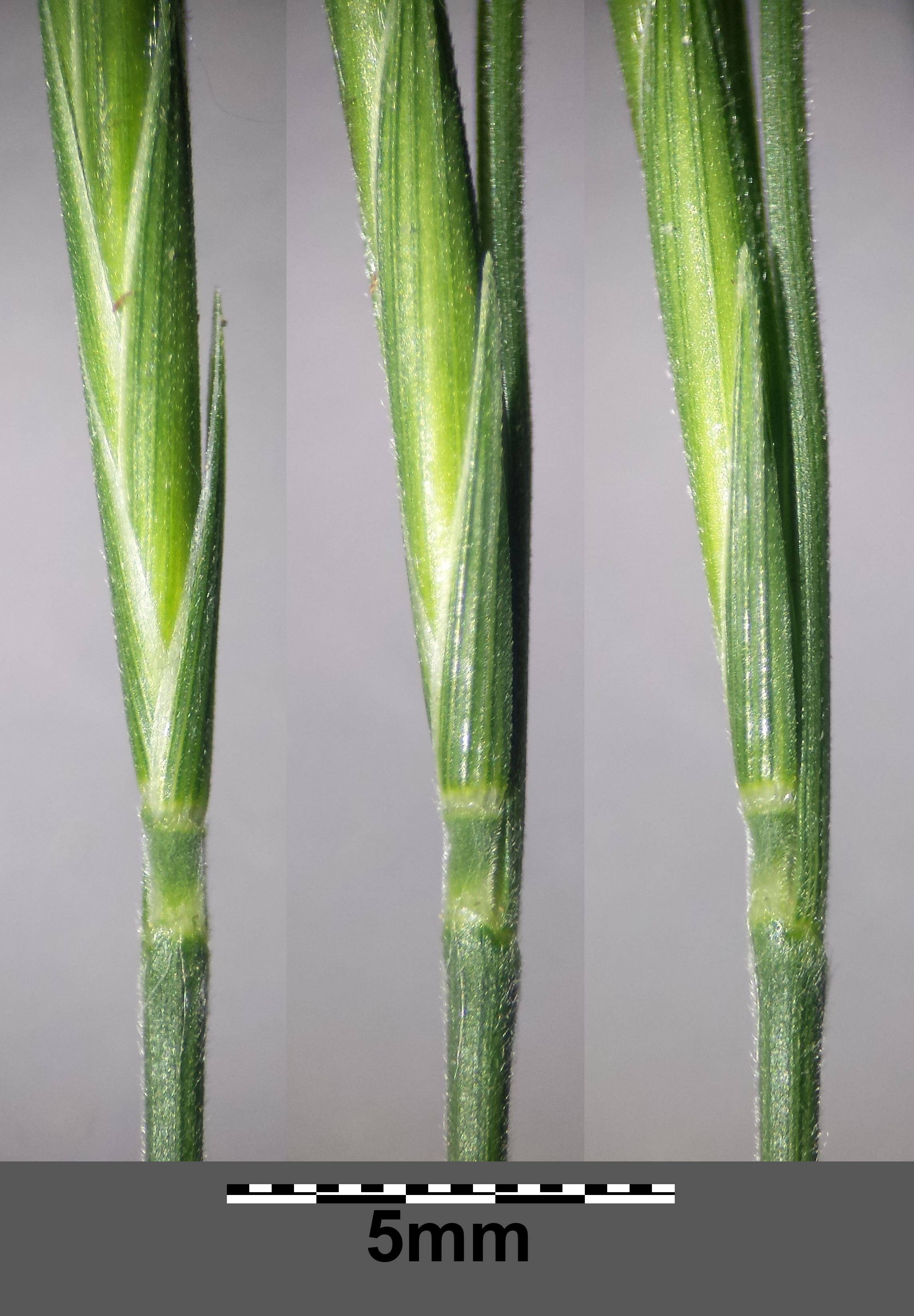 Shortly pedicellate spikelet Taxonym: Brachypodium sylvaticum (subsp. sylvaticum) ss Fischer et al. EfÖLS 2008 ISBN 978-3-85474-187-9 Location: Kalte Stube near Puch, district Hollabrunn, Lower Austria - ca. 290 m a.s.l. Habitat: path within a wood